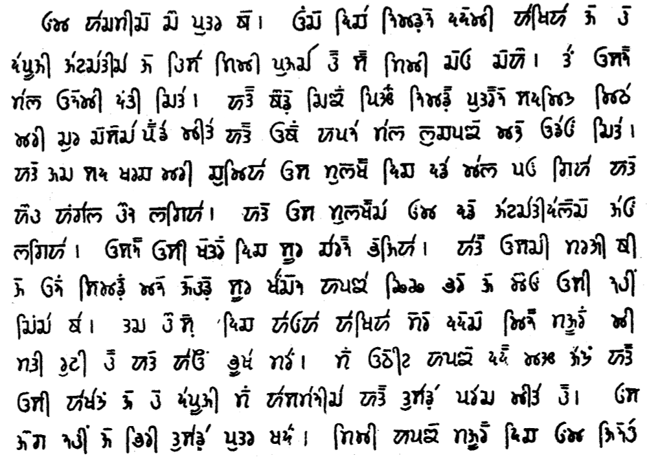 Dogri Specimen in Chambeali Takri